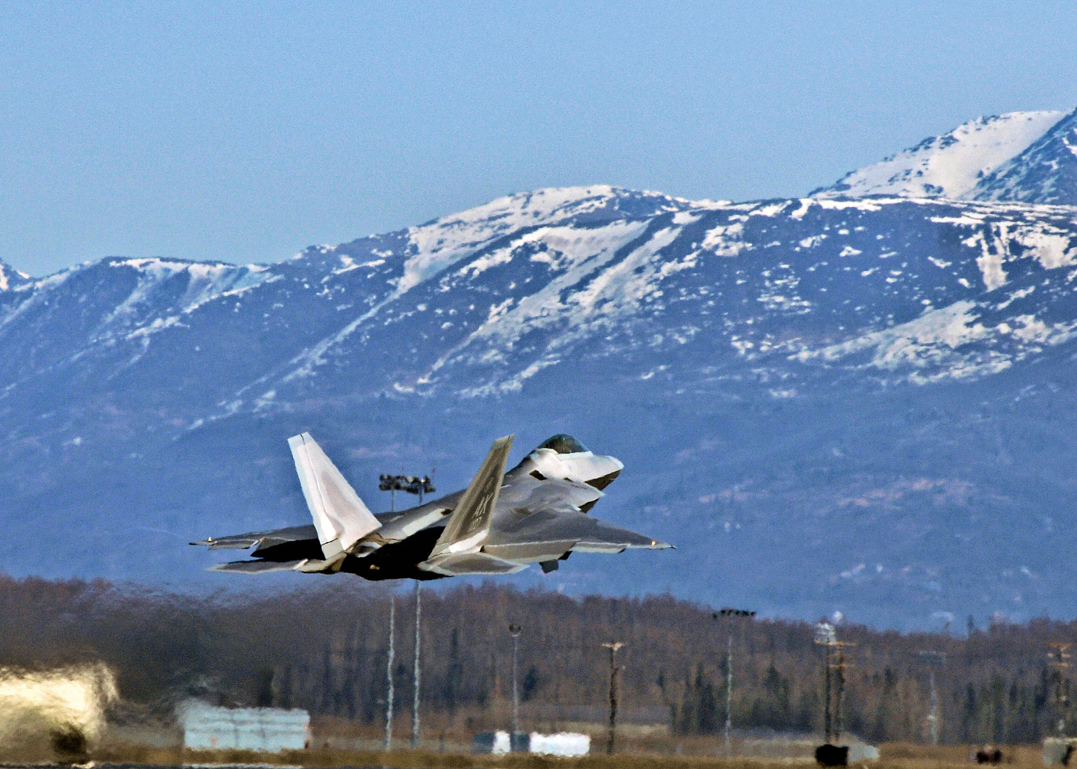 ELMENDORF AIR FORCE BASE, Alaska -- An F-22A Raptor from the 525th Fighter Squadron takes off April 30. This exercise enables flying squadrons to enhance their fighting capabilities in simulated combat sorties in a realistic threat environment. (U.S. Air Force photo/Senior Airman Laura Turner)